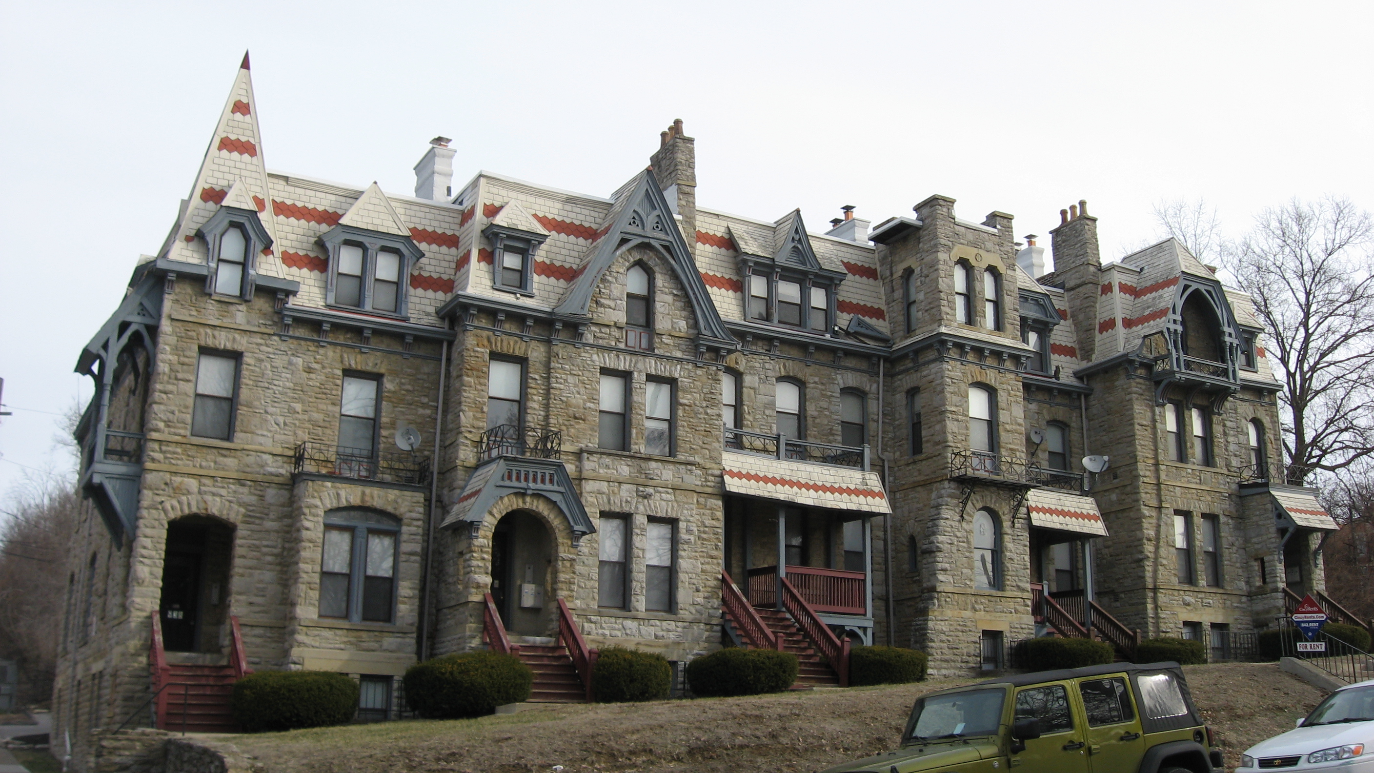 Front of Madam Fredin's Eden Park School, located at 938-946 Morris Street on the southern edge of the Walnut Hills neighborhood of Cincinnati, Ohio, United States. Built in 1880, it and an associated rowhouse (located immediately to the west) are listed together listed on the National Register of Historic Places, and they are part of a Register-listed historic district, the Gilbert-Sinton Historic District.